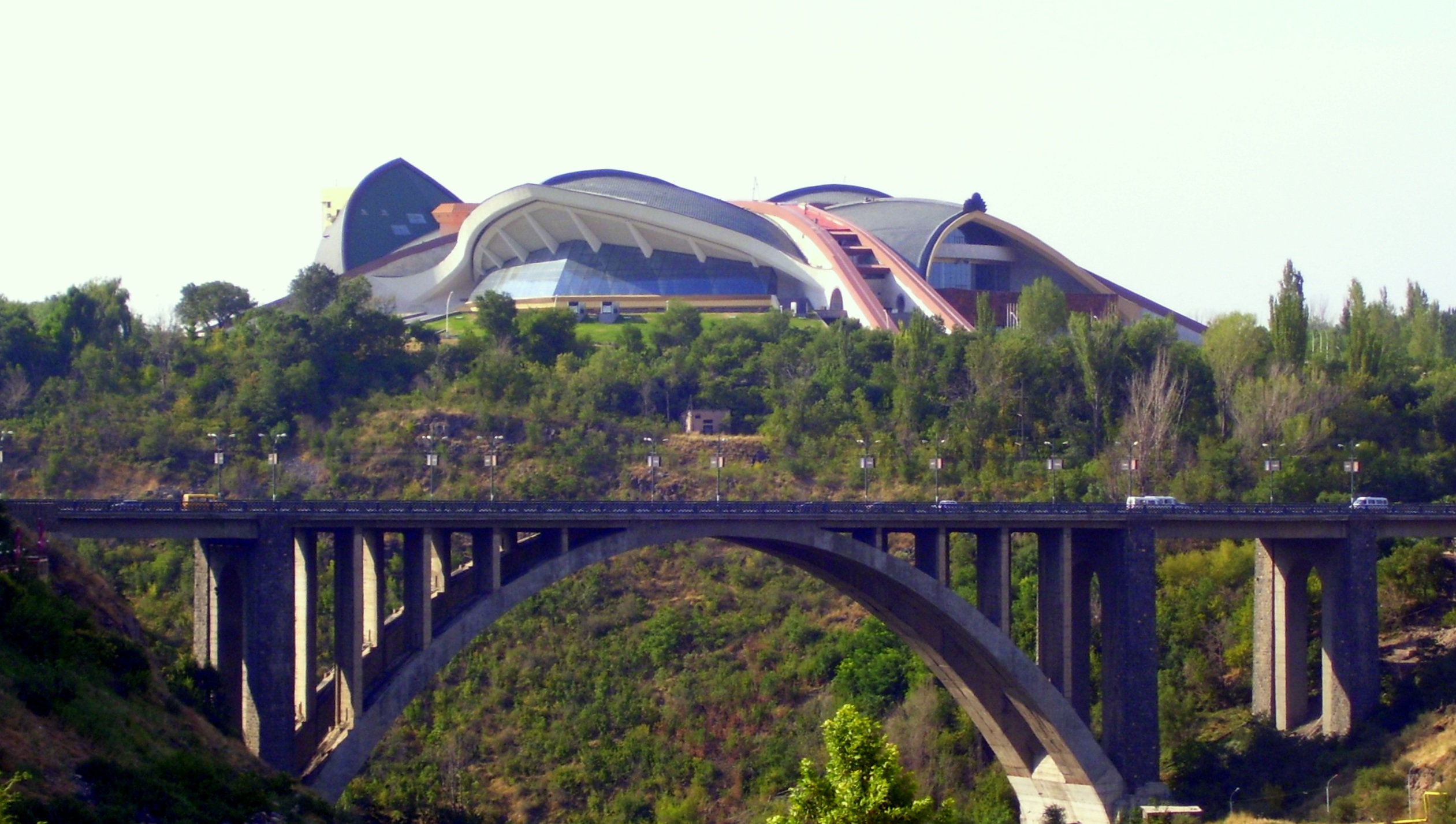 Hrazdan Big bridge